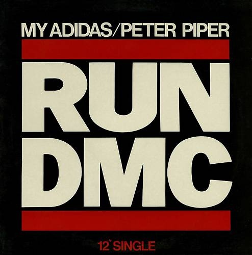 The album cover of the Run–D.M.C. 12-inch single "My Adidas / Peter Piper". This record was released in 1986 on Profile Records.